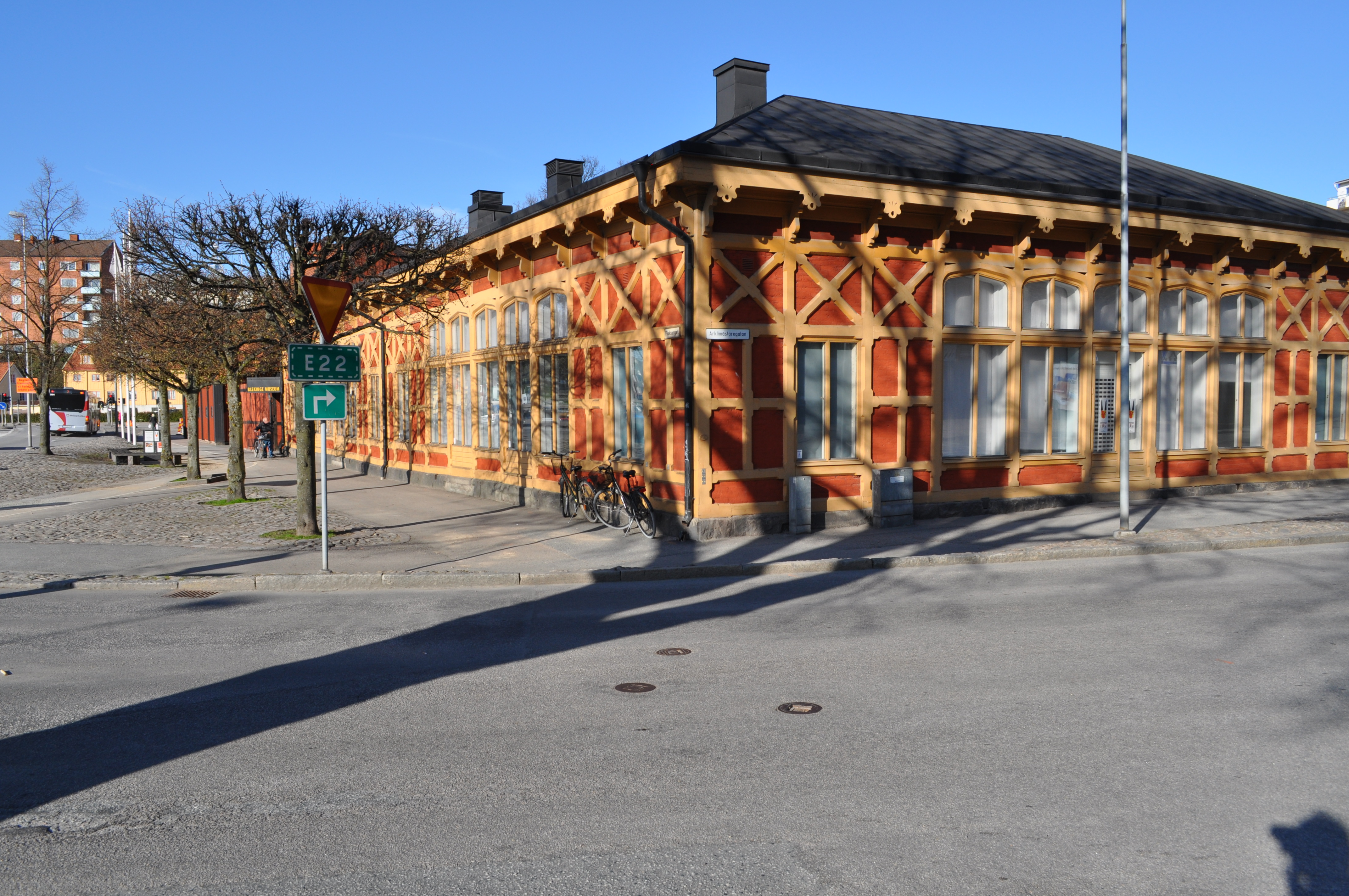 Museum of landscape Blekinge. Blekinge läns museum